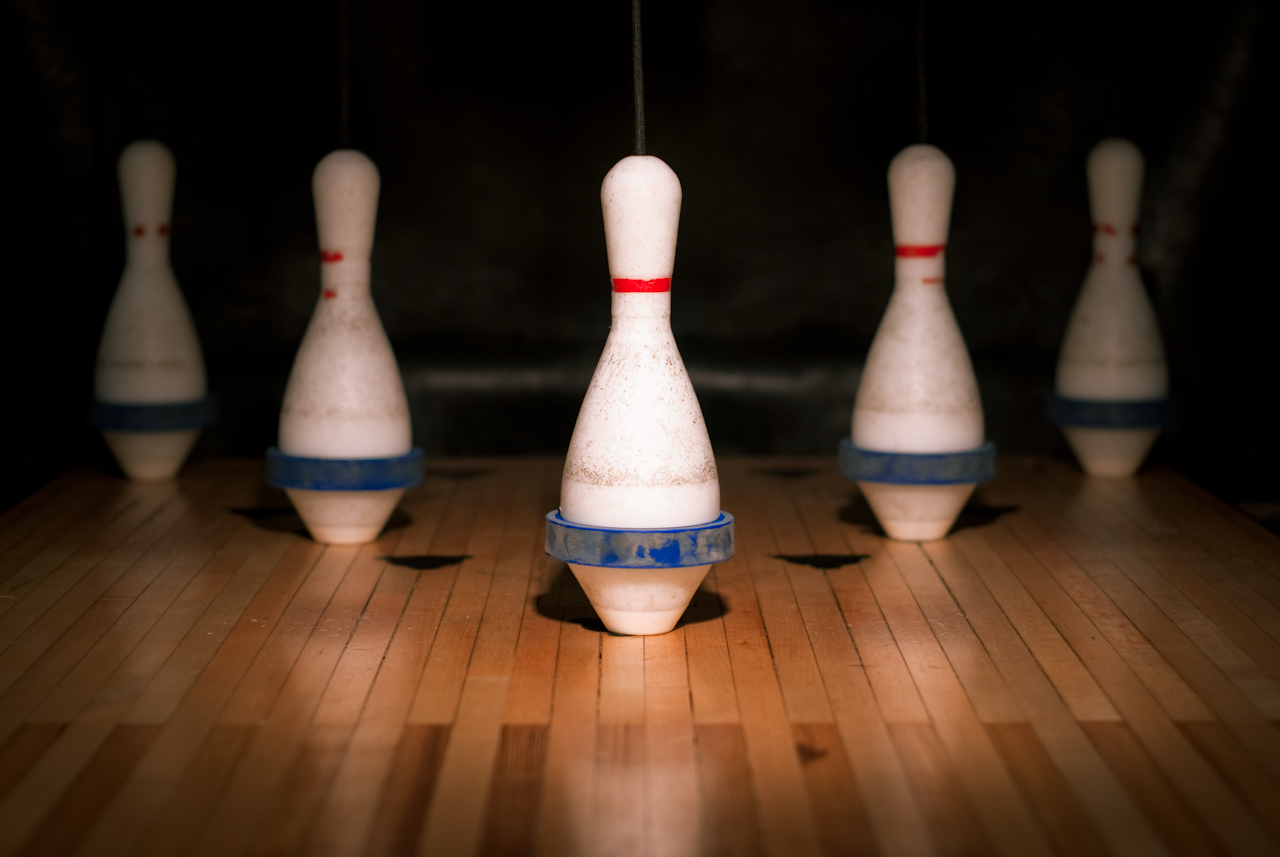 5-pin bowling pins in Halifax, Nova Scotia Five-pin bowling at Stadacona Bowling Lanes in Halifax, Nova Scotia